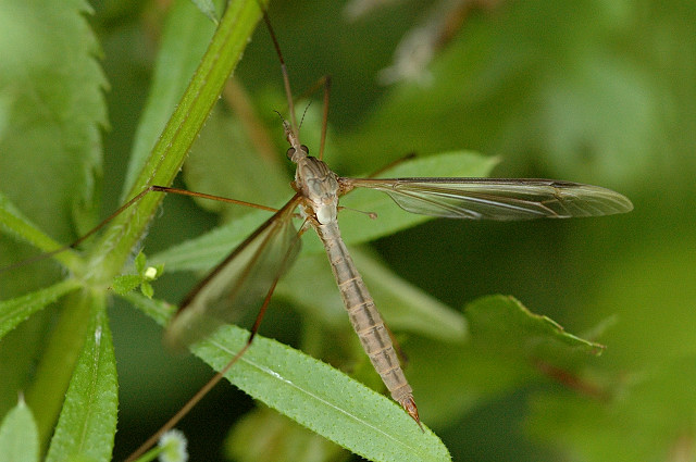 Picture taken in Commanster, Belgian High Ardennes . Species: female Tipula oleracea